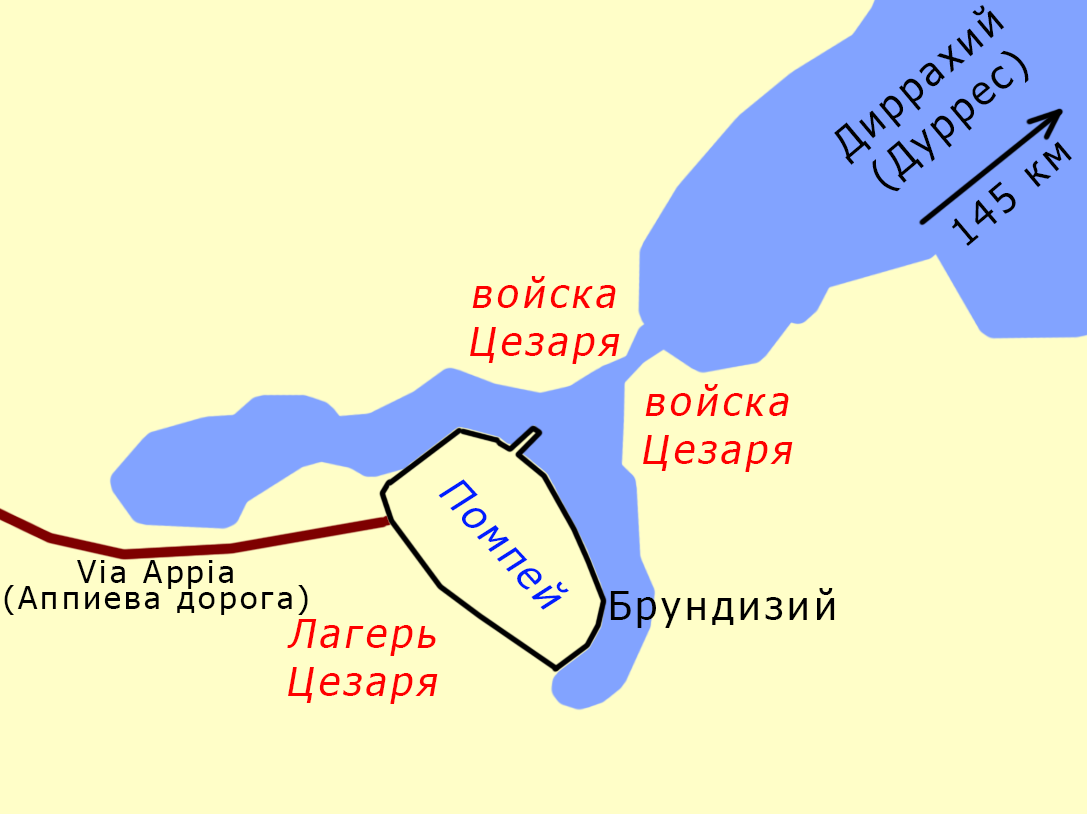 Caesar's and Pompey's position near Brundisium, during Civil War in the Roman Republic, March 49 BC.